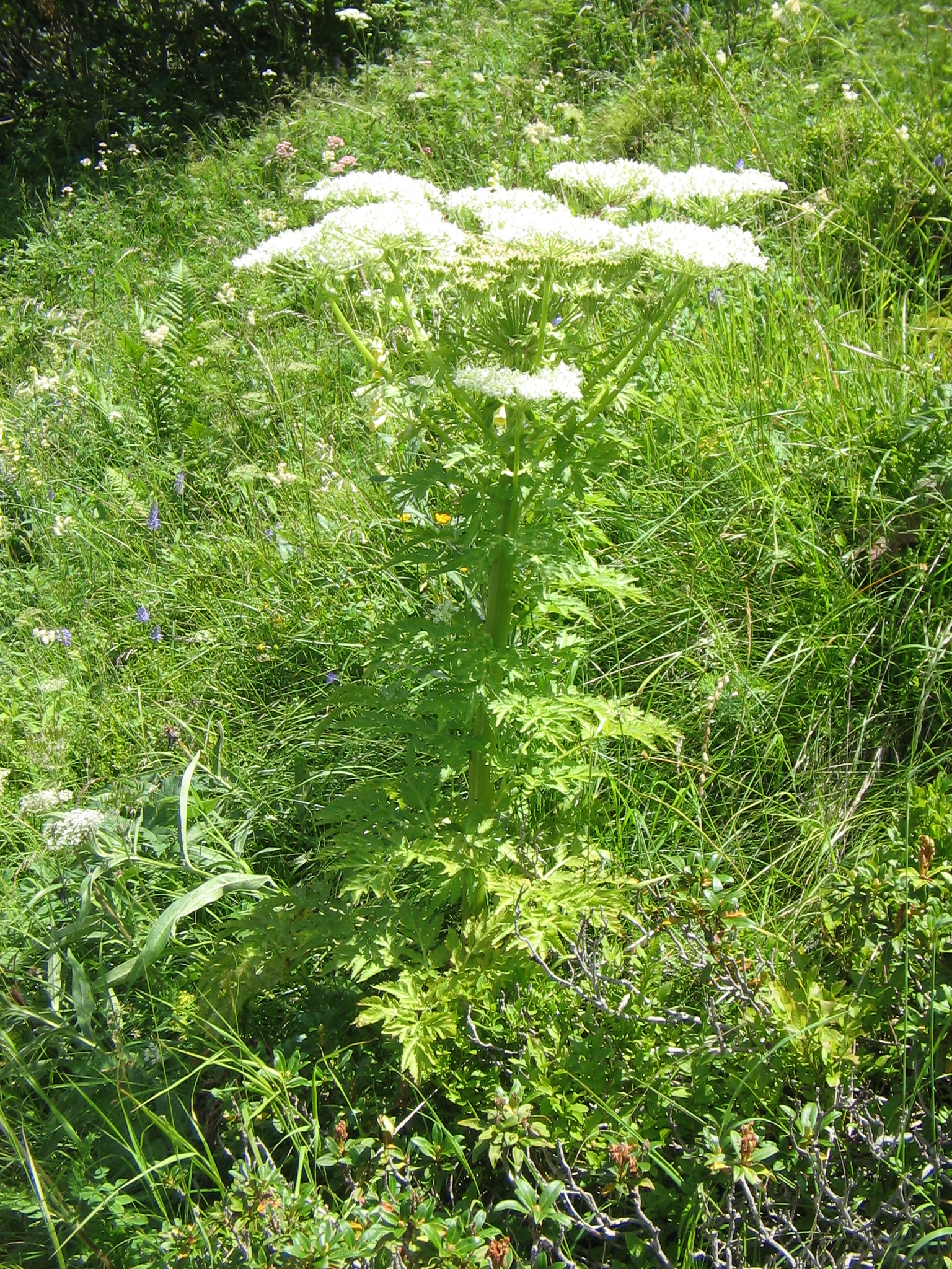 Pleurospermum austriacum